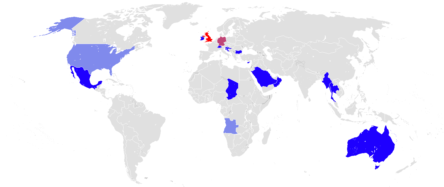 Map of Pilatus PC-9 Operators. Current in dark blue former in light blue and civil in red.